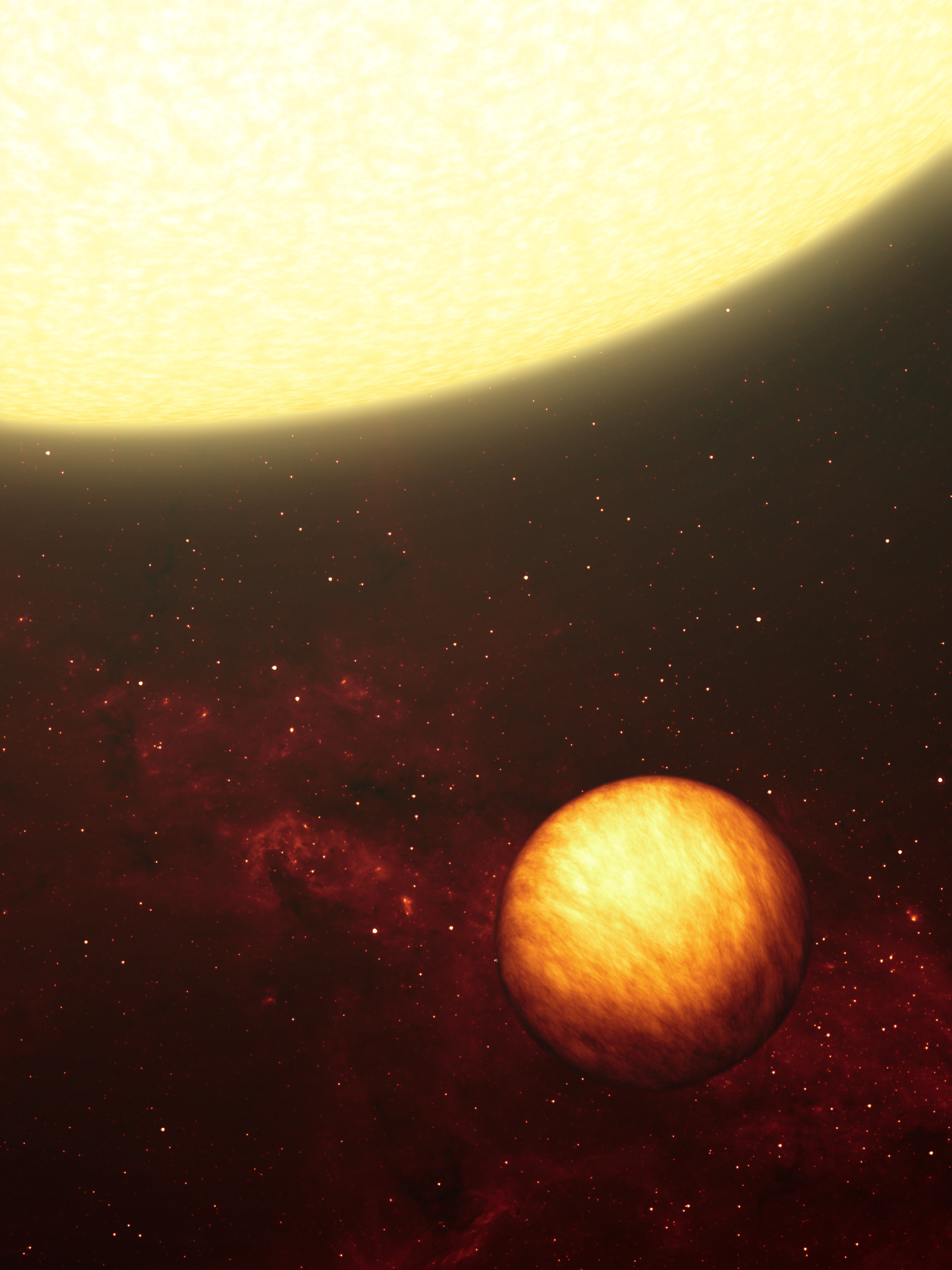 This artist's concept shows a Jupiter-like planet soaking up the scorching rays of its nearby "sun." NASA's Spitzer Space Telescope used its heat-seeking infrared eyes to figure out that a gas-giant planet like the one depicted here is two-faced, with one side perpetually in the cold dark, and the other forever blistering under the heat of its star. The illustration portrays how the planet would appear to infrared eyes, showing temperature variations across its surface. The planet, called Upsilon Andromedae b, was first discovered in 1996 around the star Upsilon Andromedae, located 40 light-years away in the constellation Andromeda. This star also has two other planets orbiting farther out. Upsilon Andromedae b is what's known as a "hot-Jupiter" planet, because it is made of gas like our Jovian giant, and it is hot, due to its tight, 4.6-day-long jaunt around its star. The toasty planet orbits at one-sixth the distance of Mercury from our own sun. It travels in a plane that is seen neither edge- nor face-on from our solar system, but somewhere in between. Scientists do not know how fast Upsilon Andromedae b is spinning on its axis, but they believe that it is tidally locked to its star, just as our locked moon forever hides its "dark side" from Earth's view.